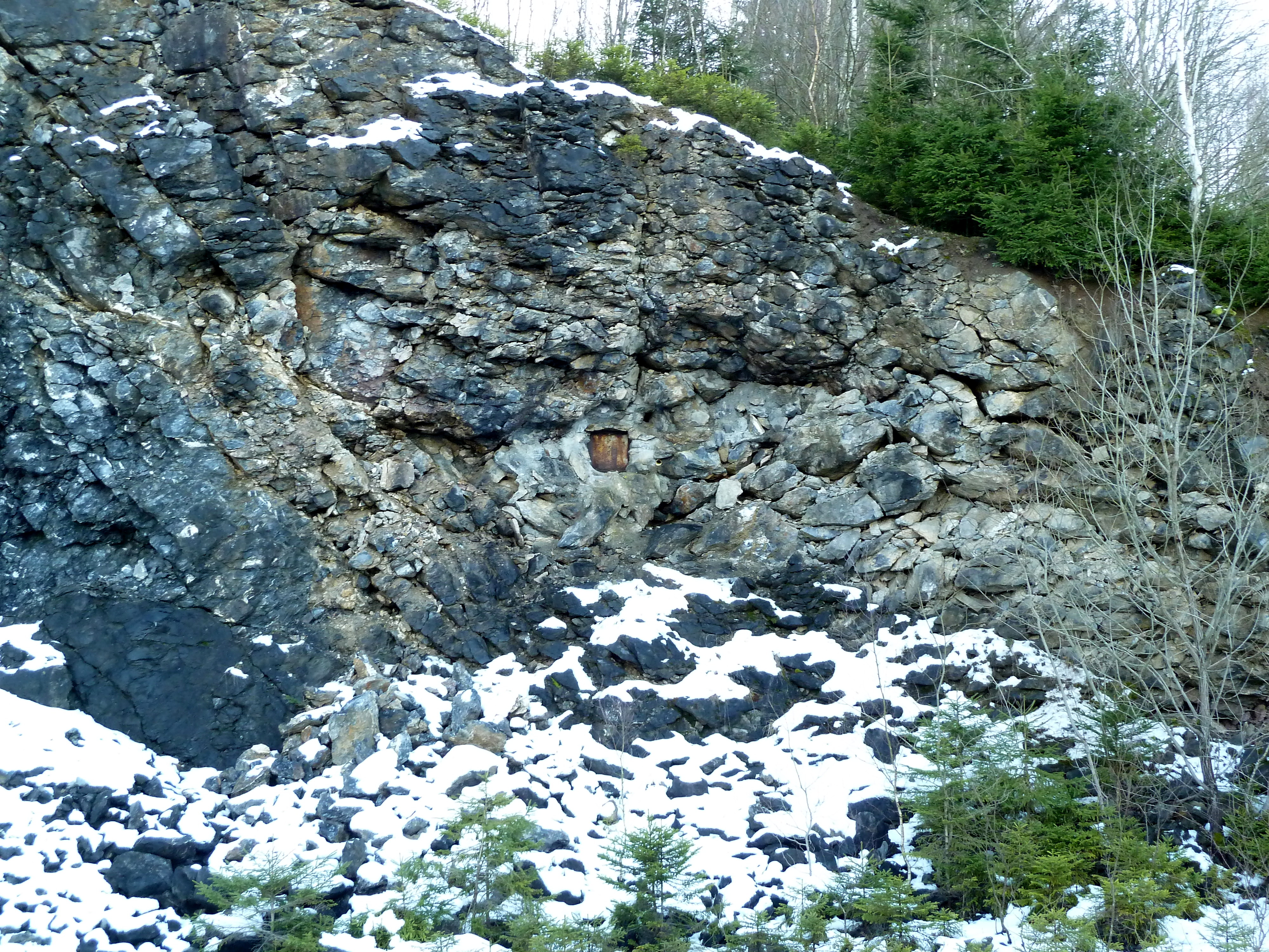 Locked entrance to the cave Ostenberghöhle in Bestwig-Velmede.